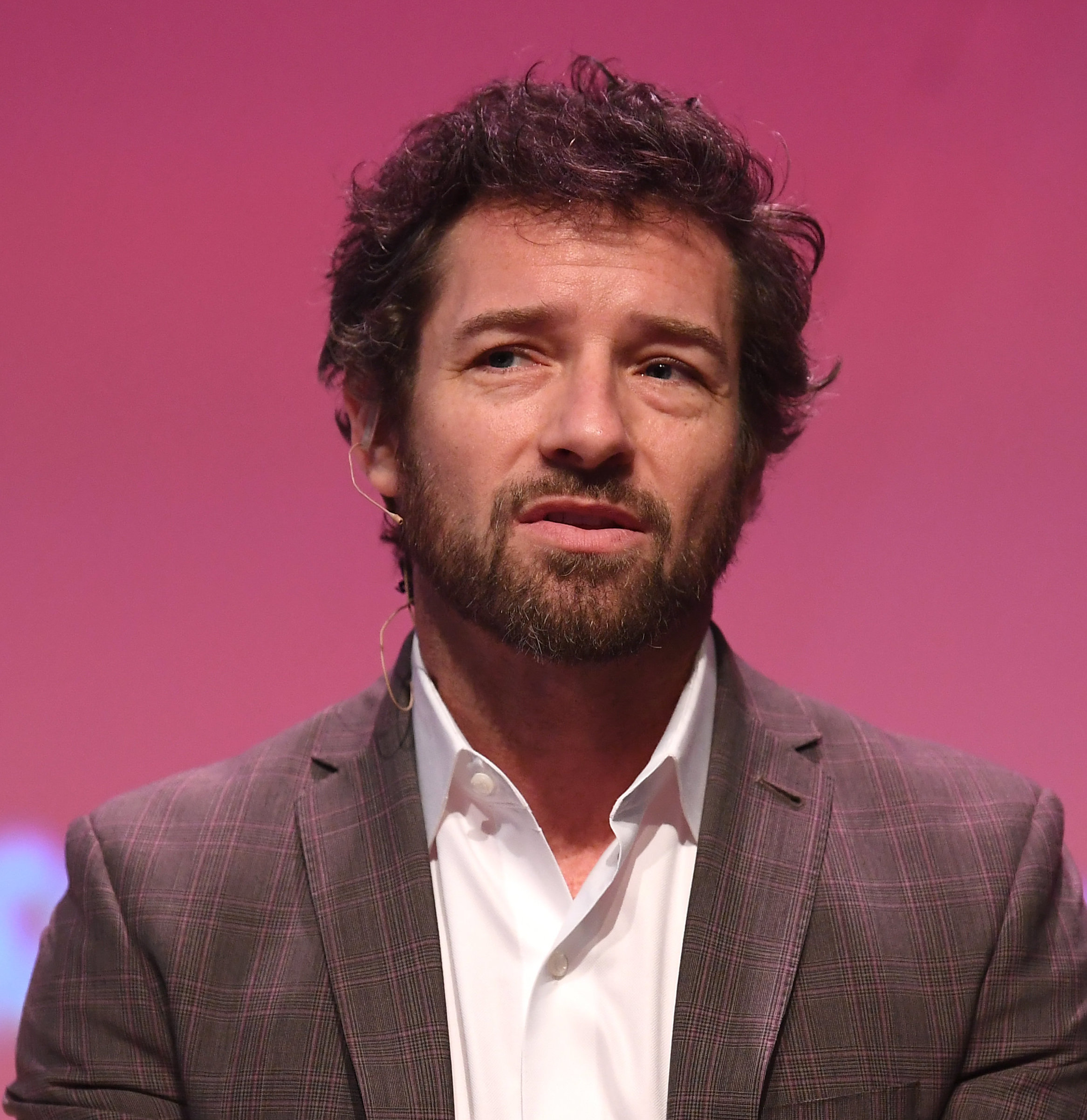 1 May 2018; Ian Bohen, Actor and Activist, on centre stage during day one of Collision 2018 at Ernest N. Morial Convention Center in New Orleans.